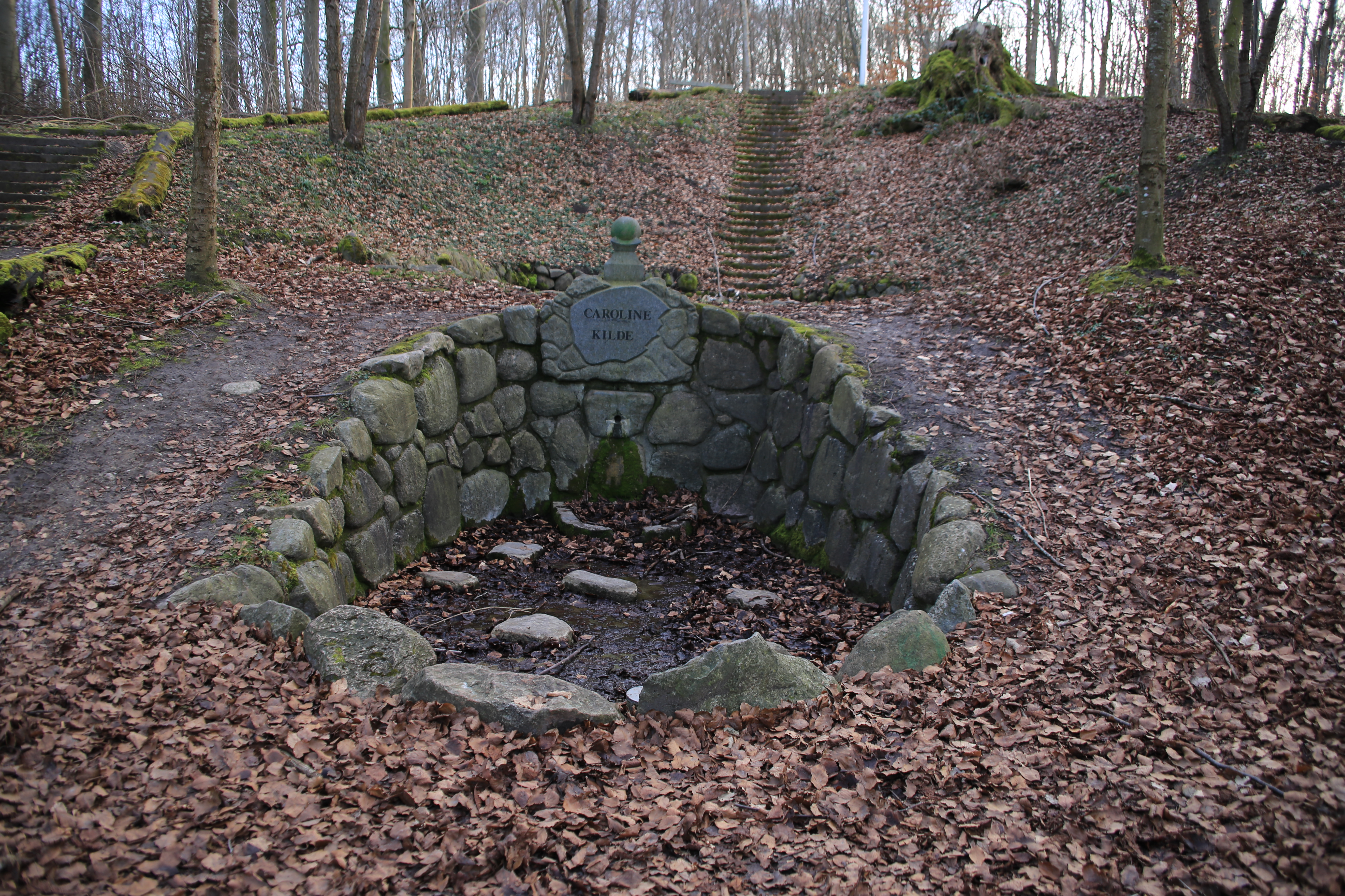 Carolinekilden (The Caroline Spring) in Snestrup, Odense, Denmark.